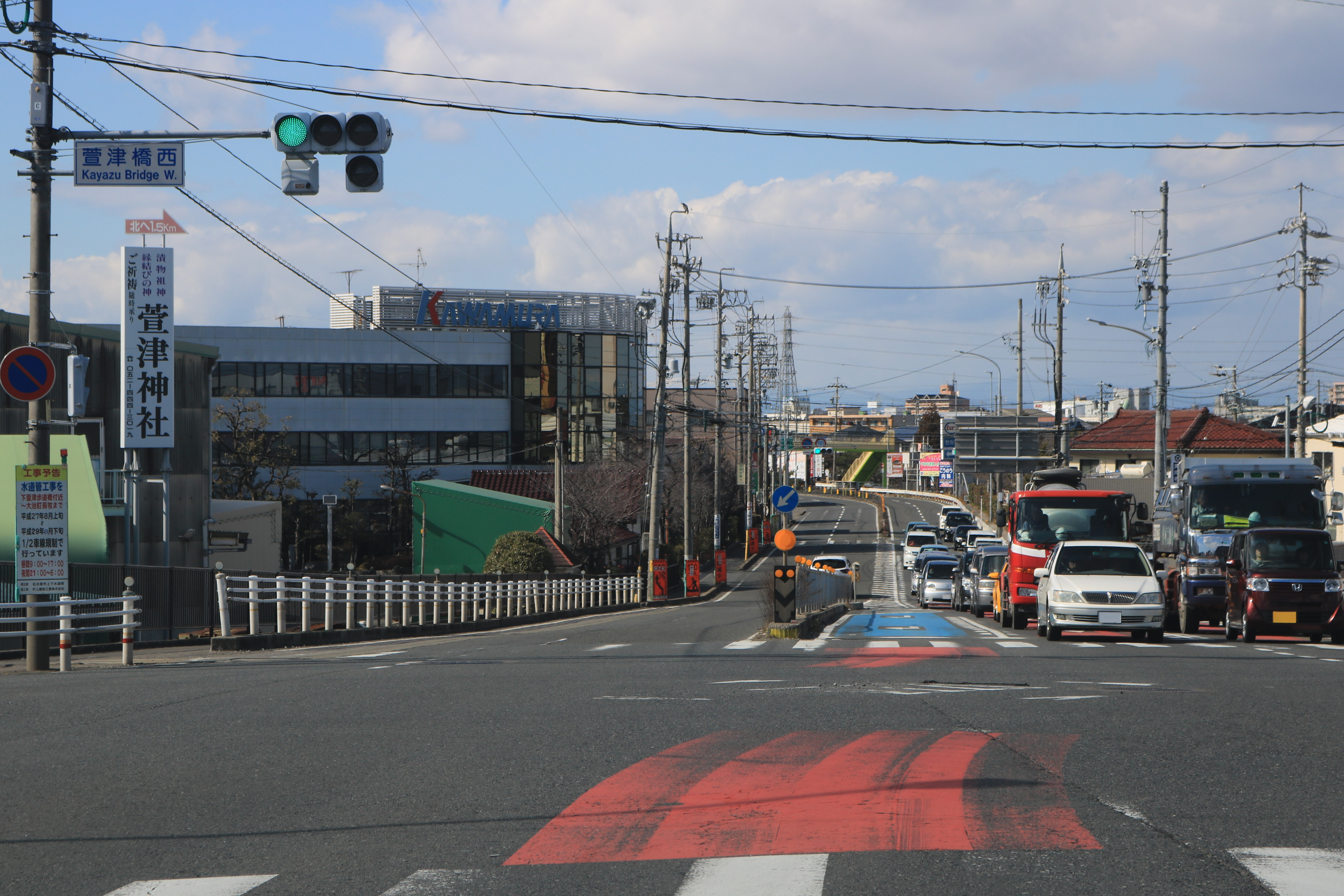 Aichi Prefectural Road Route 79 and Aichi Prefectural Road Route 59 in Shimokayazu, Ama, Aichi Prefecture, Japan.